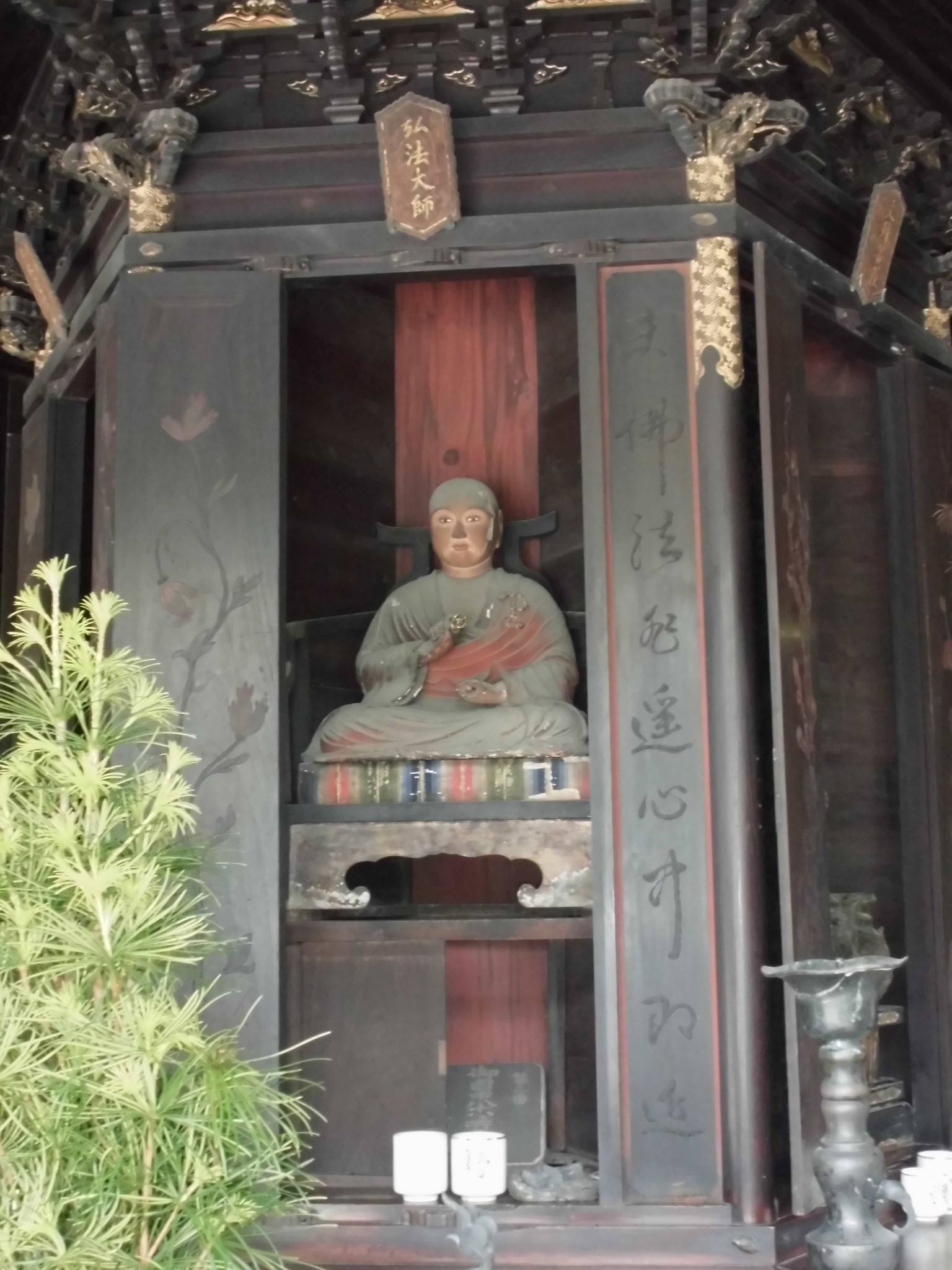 Tabernacle in the Rokkaku-Hall of Tōchō-Temple (Hakata, Fukuoka-City, Japan). The statue is Kūkai.